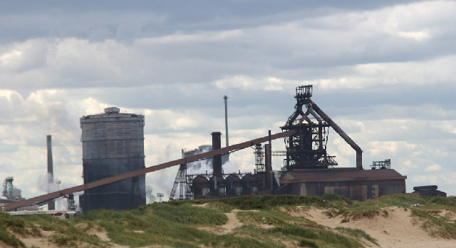 Blast Furnace. Teesside's steel blast furnace.